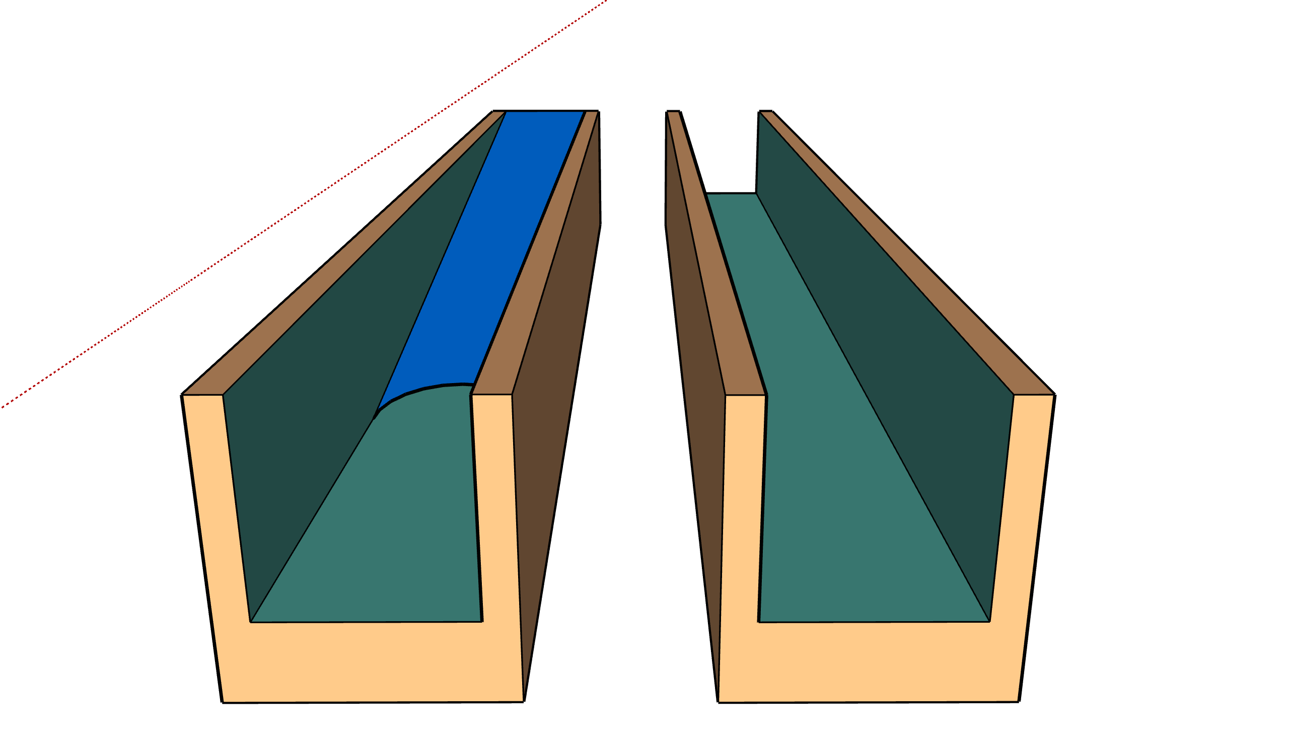 u shape capillary flow